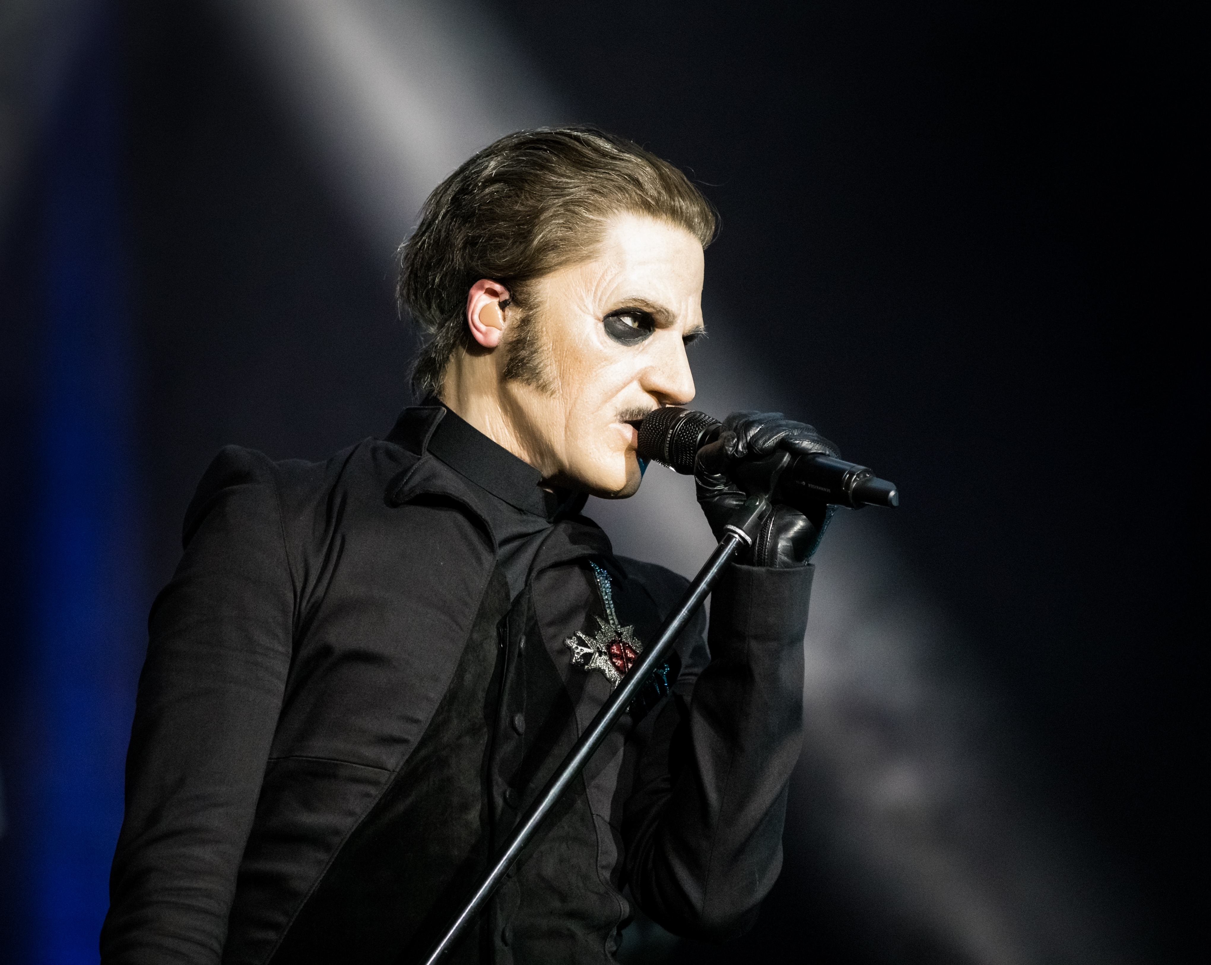 Ghost - Wacken Open Air 2018